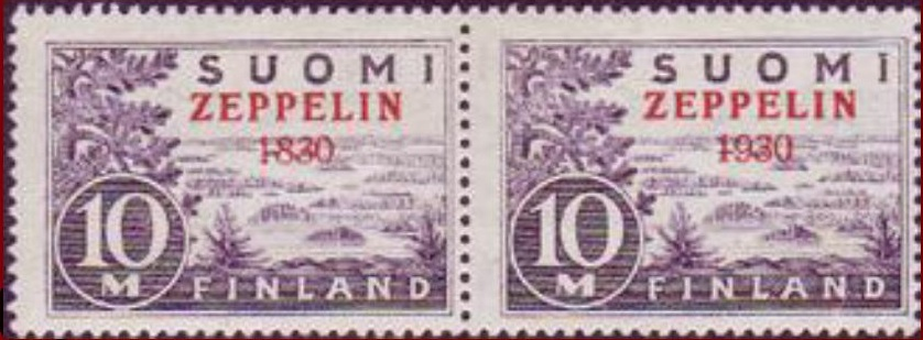 Finnish stamp "Zeppelin 1930" and printing error "1830".